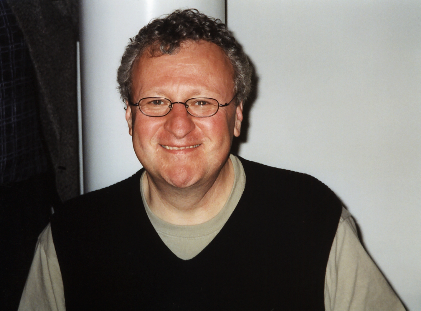 American actor Peter Jurasik at a Babylon 5-Event in Stuttgart, Germany, 2000.